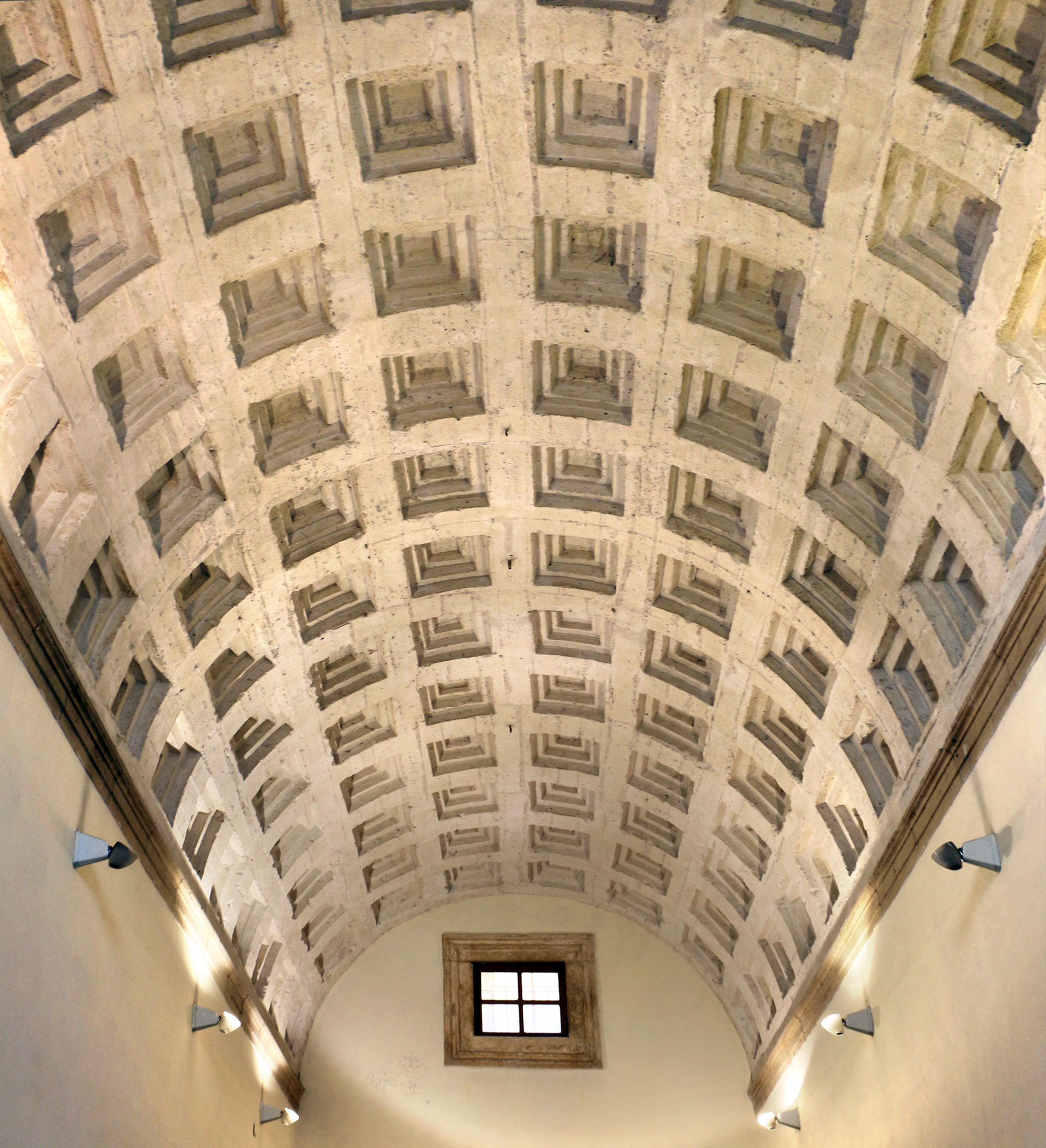 Palazzo Venezia (Rome)